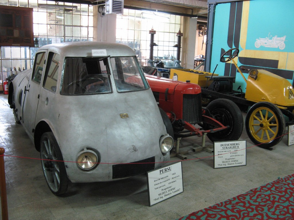 The Persu car, on display at the Romanian Technical Museum "Dimitrie Leonida"